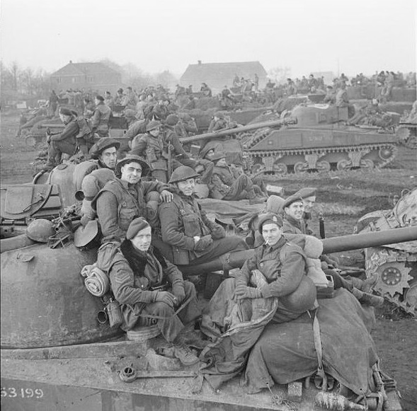 The Campaign in North-west Europe 1944-45 Sherman tanks of 10th Canadian Armoured Regiment (Fort Garry Horse) with infantry of the Royal Regiment of Canada massing in preparation for the assault on Goch, 17 February 1945.